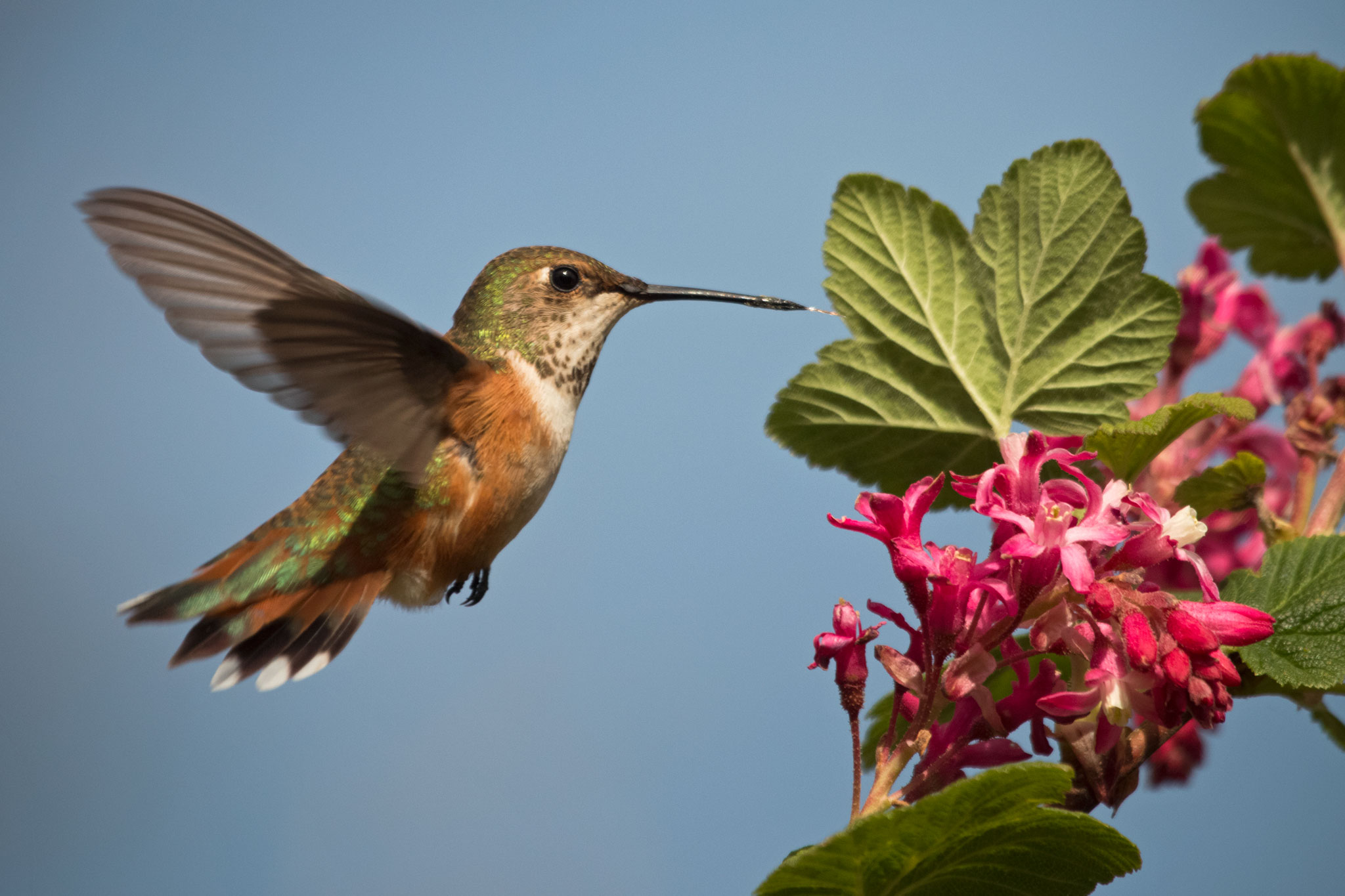 Female rufous hummingbird on red-flowering currant (Ribes sanguineum) You are free to use this image with the following photo credit: Peter Pearsall/USFWS